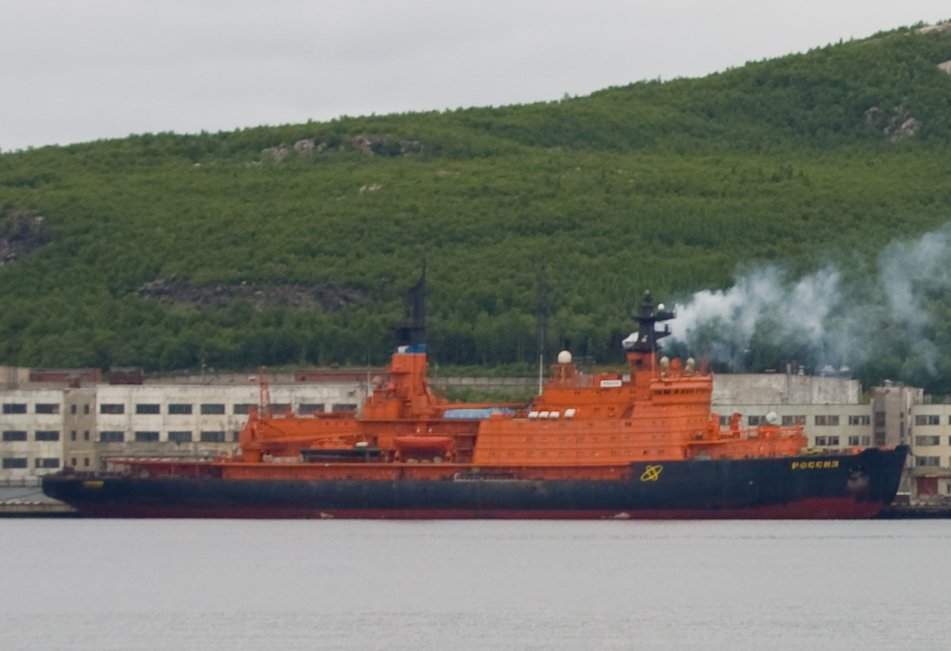 The nuclear-powered Arktika class icebreaker Rossiya.